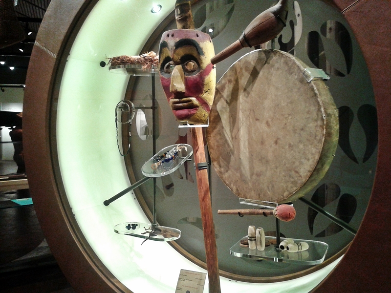 Suquamish ritual paraphernalia on display at the Suquamish Museum in 2014. As per placard in case, items displayed are c. late 1800s.